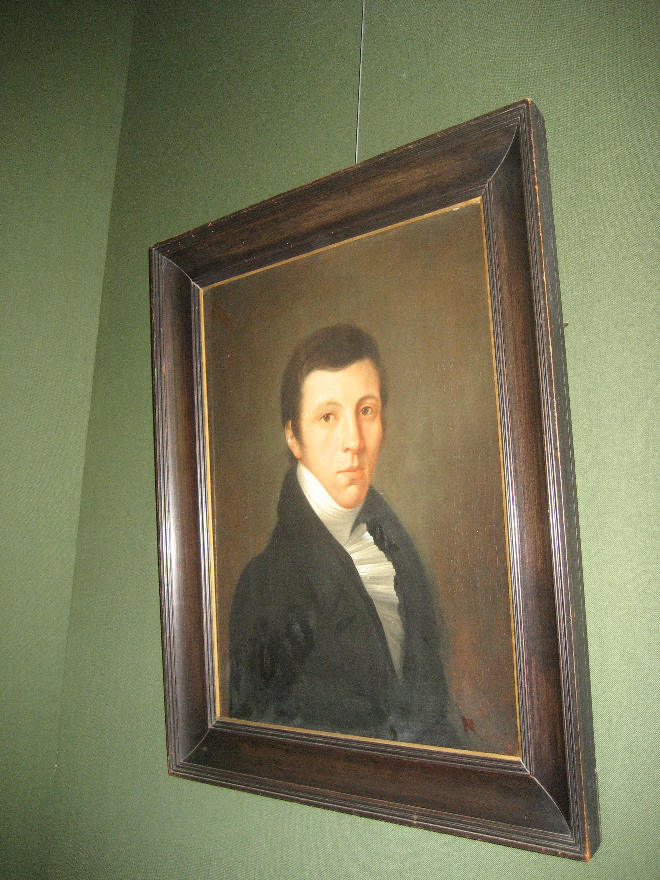 Heinrich Boie (1794-1827), German zoologist. Painting in museum Naturalis, Leiden (NL)